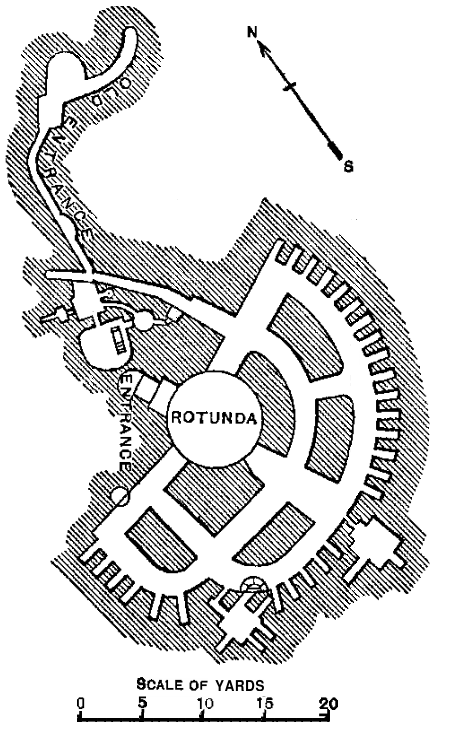 An illustration from the Encyclopaedia Biblica, a 1903 publication which is now in the public domain. Fig. 3 for article "Tomb". Plan of "The Tomb of the Prophets" in Jerusalem